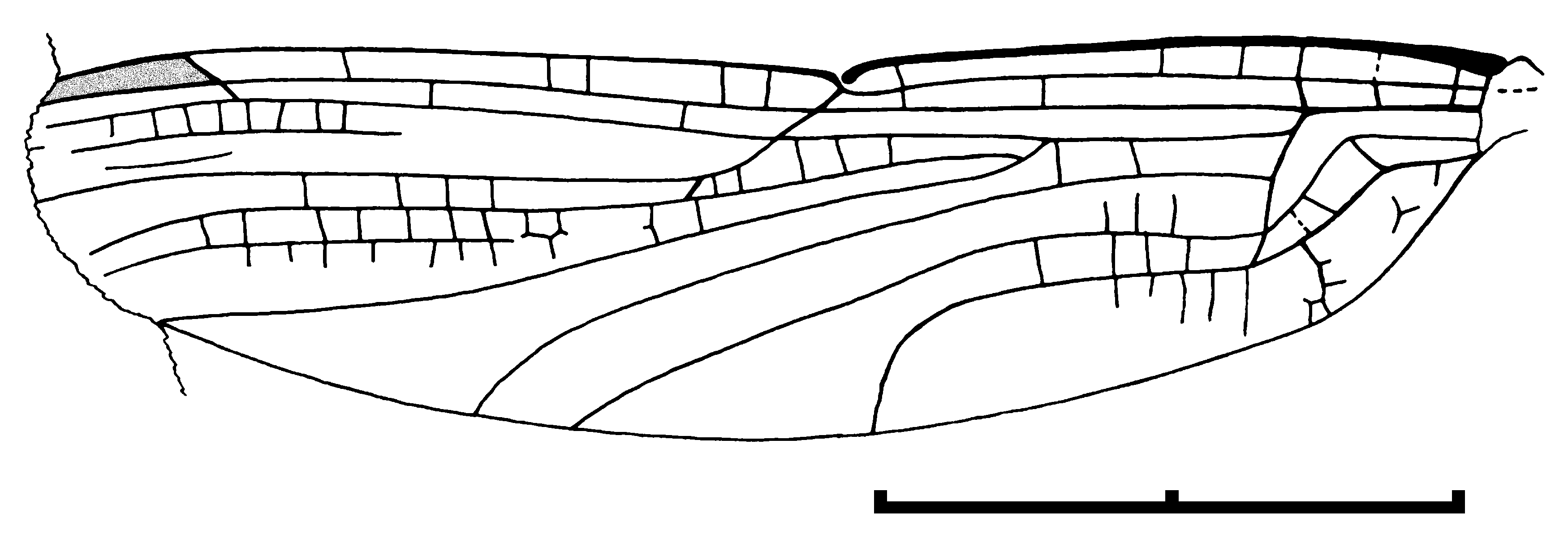 Tarsophlebia minor (Odonata: Tarsophlebioptera: Tarsophlebiidae), Upper Jurassic, Solnhofen Plattenkalk, holotype MCZ no55, left hind wing, scale 10mm, drawing by G. Bechly